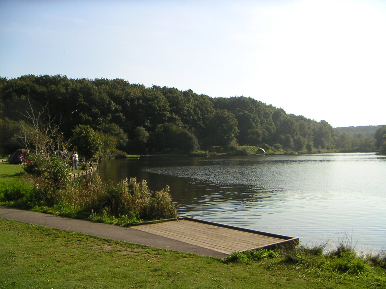 Vicar Water, previously known locally brfore extensive alterations and landscaping as Vicar's Pond